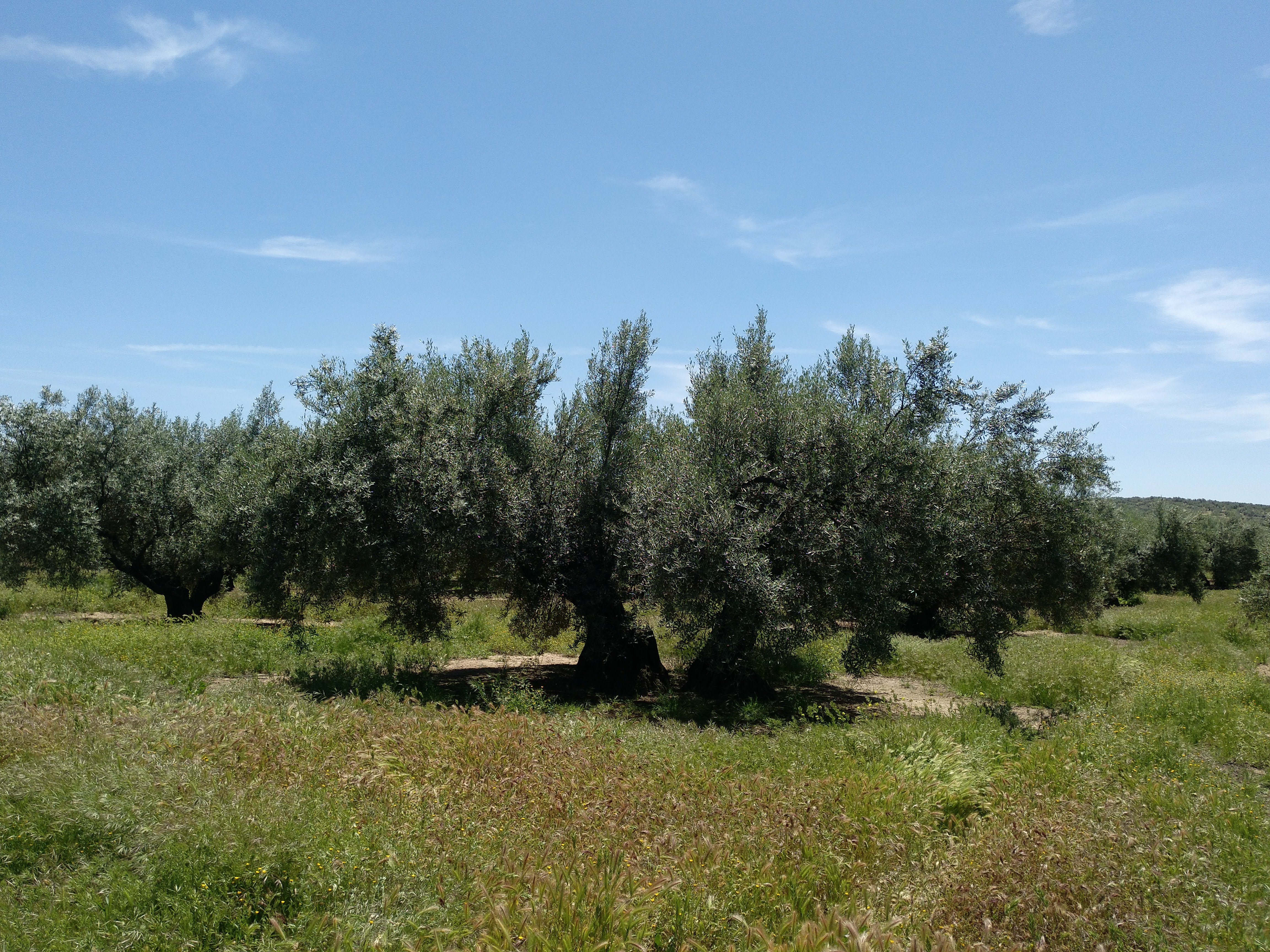 Olea europaea orchards in Martos, Jaén (Spain).